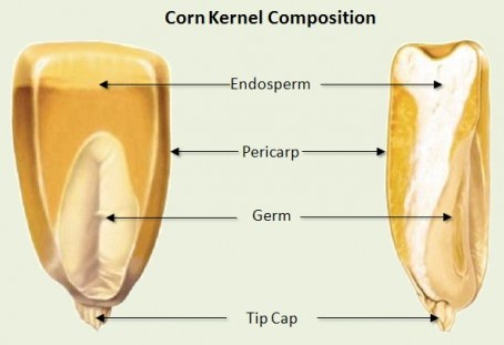 Maize corn